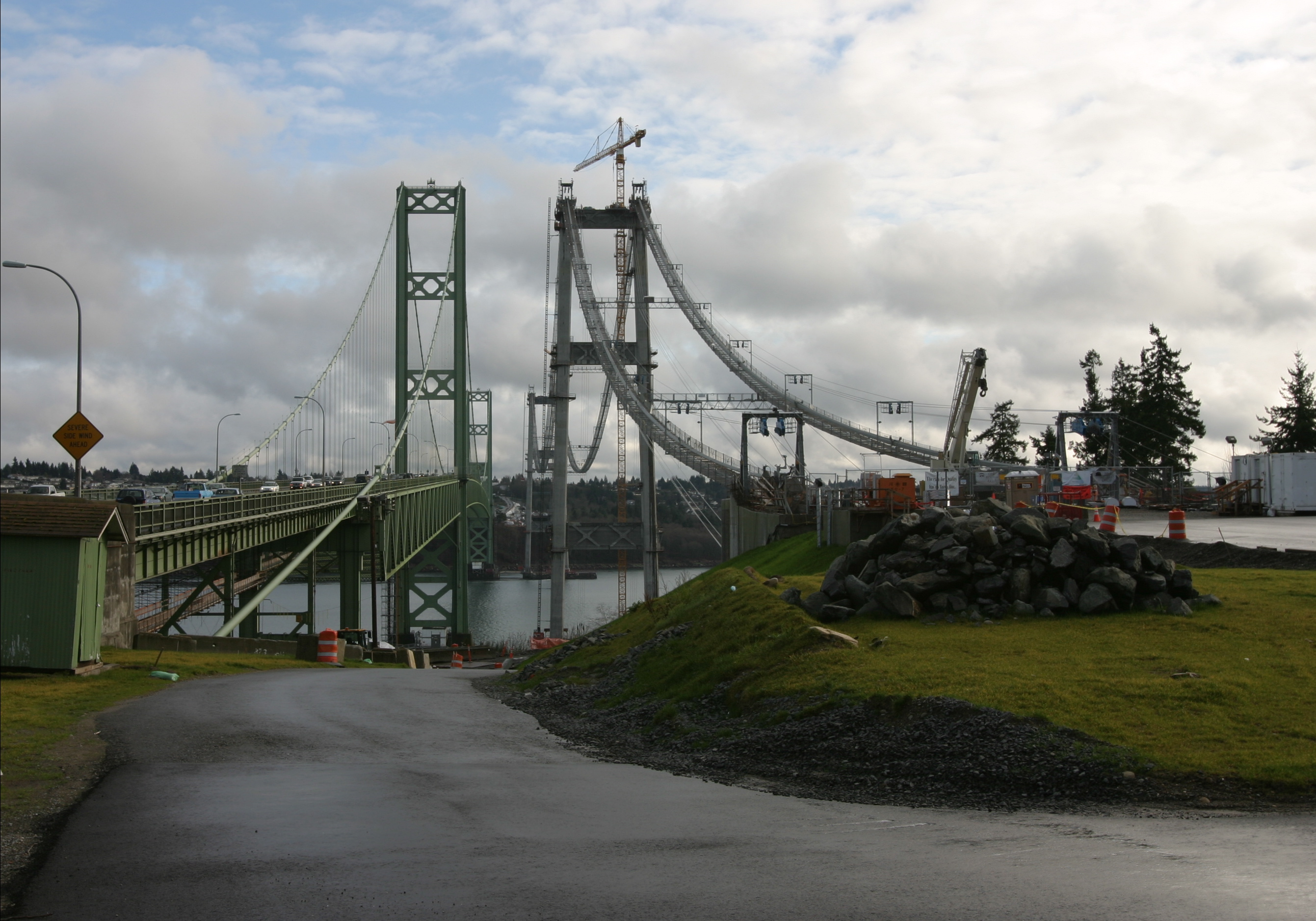 The Tacoma Narrows Bridge seen from the north.